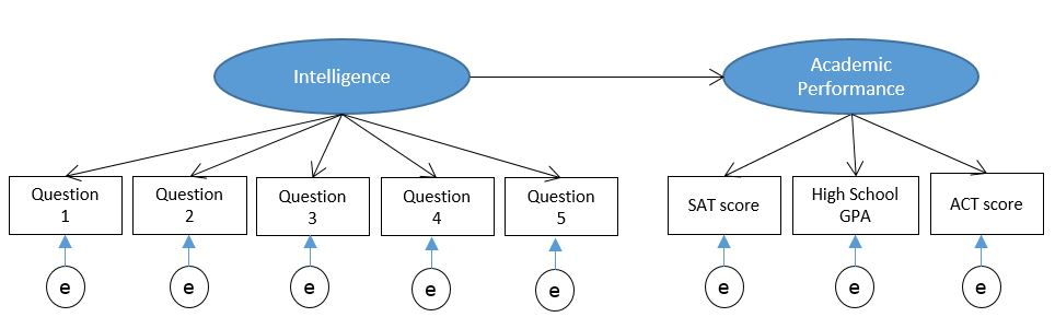 A conceptual illustration of a structural equation model theorizing that intelligence can be measured with five questions, that academic performance can be measured using SAT, high school GPA, and ACT, and that intelligence predicts academic performance.